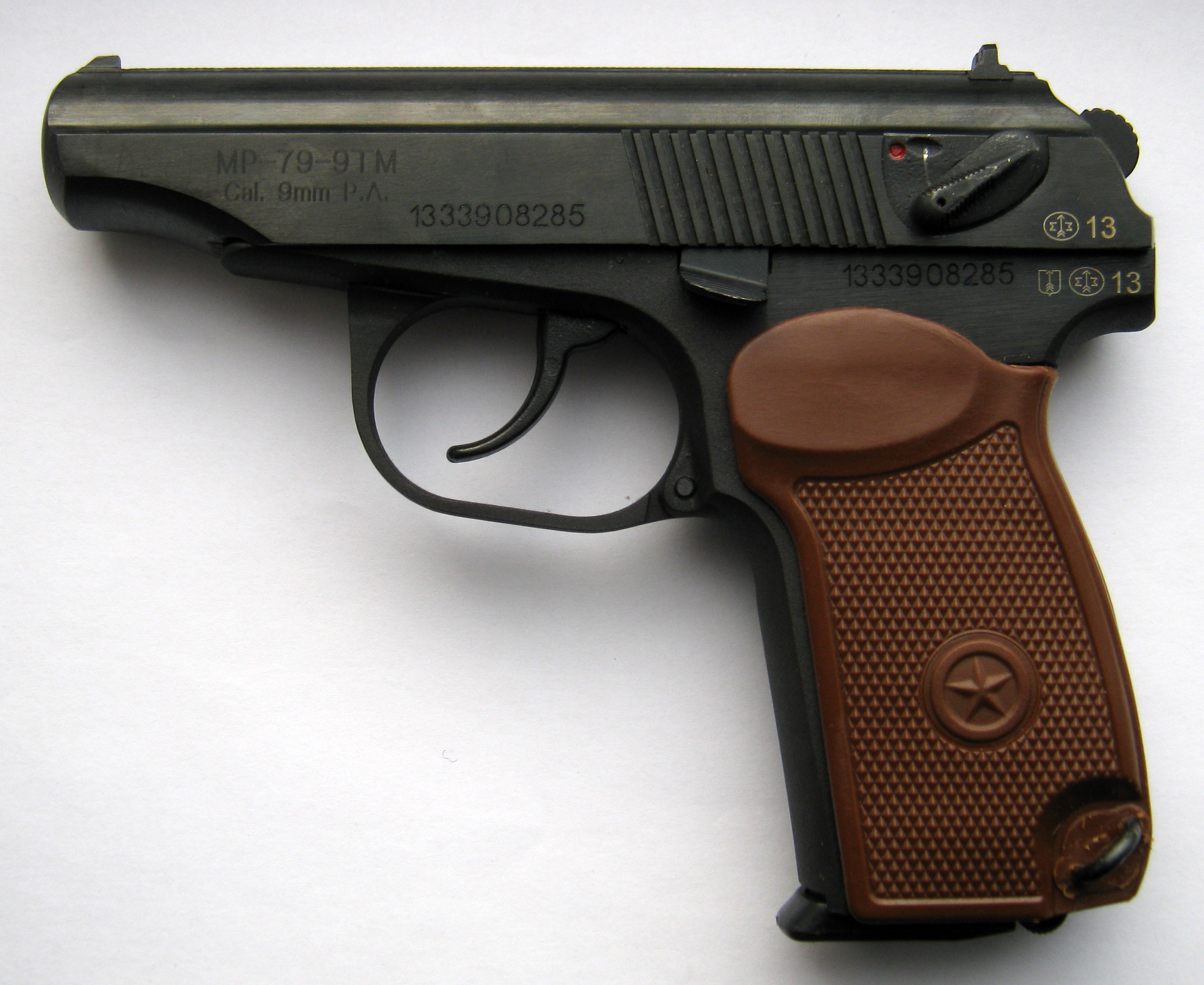 МР-79-9ТМ less-than-lethal pistol.